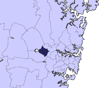 Locator Map Holroyd lga sydney.png Based on Image:Ku-ring-gai sydney.png by User:Randwicked.